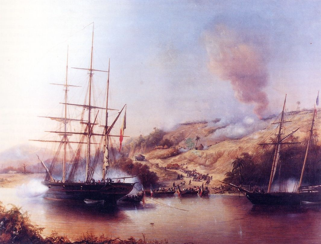 This painting of the Battle of 1849 in the Boké Museum was made by P. J. Clays. It depicts the French and Belgian warships and the landing of the marines. The original is in the Royal Museum of the Armed Forces and Military History in Brussels, Belgium